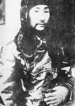 Ma Zhangshan (马占山) Wade-Giles: Ma Chan-shan,, 1885- 1950